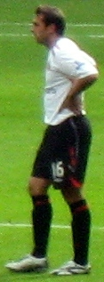 Michael Chopra. Image cropped from original at flickr.